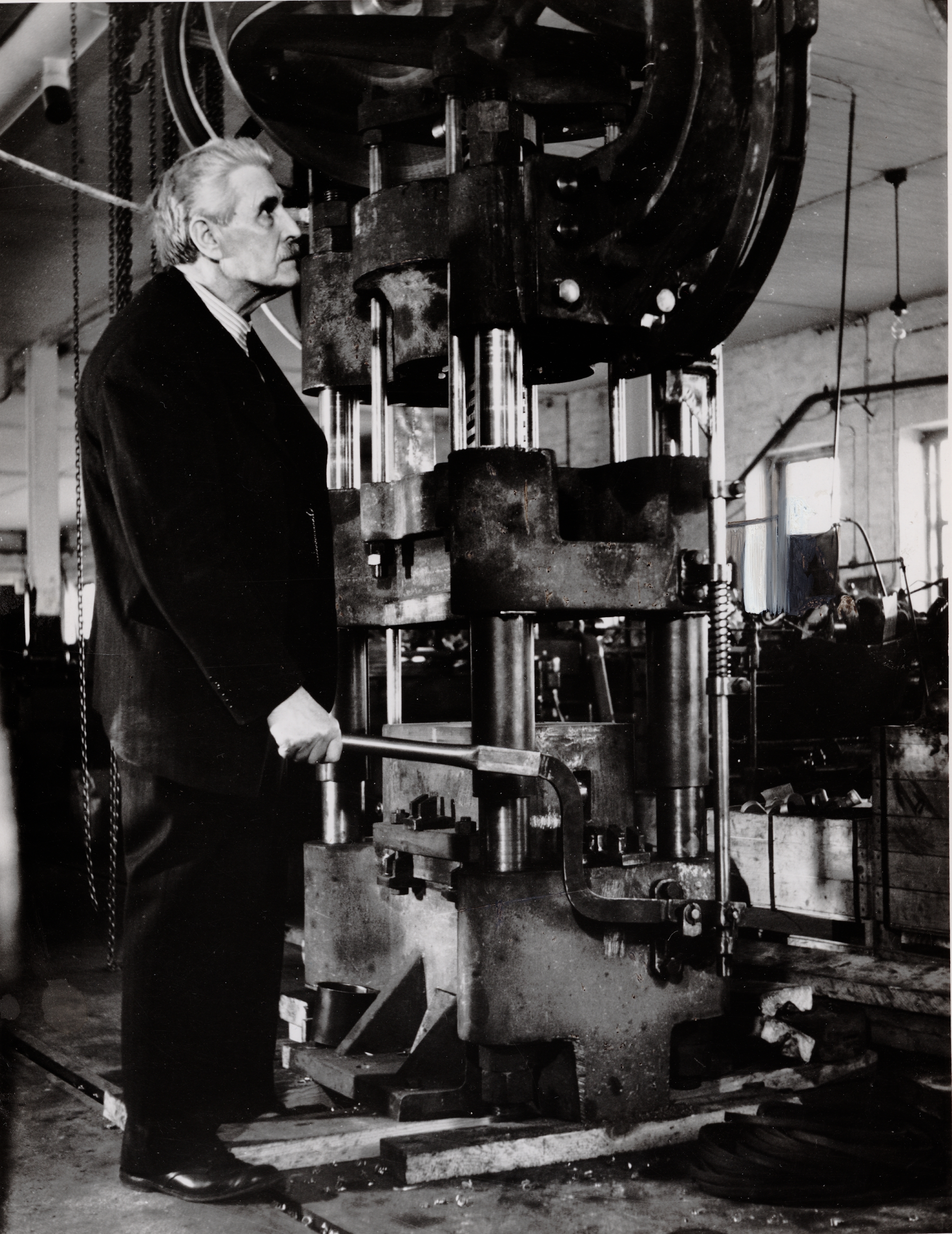 Inventor Theodor Berg, Liundesberg, Sweden 1943 with one by him invented friction press machine. Tekniska museet, Stockholm, Sweden Tekniska museet No. ARK-K3